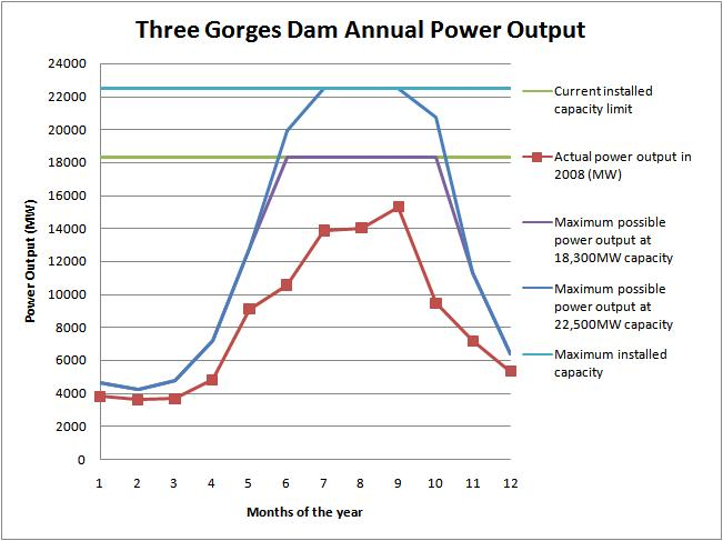 Three gorges dam annual power output